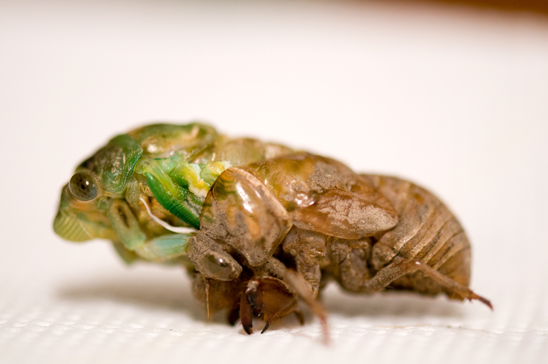 Annual cicada molting. Found in DeKalb, IL.